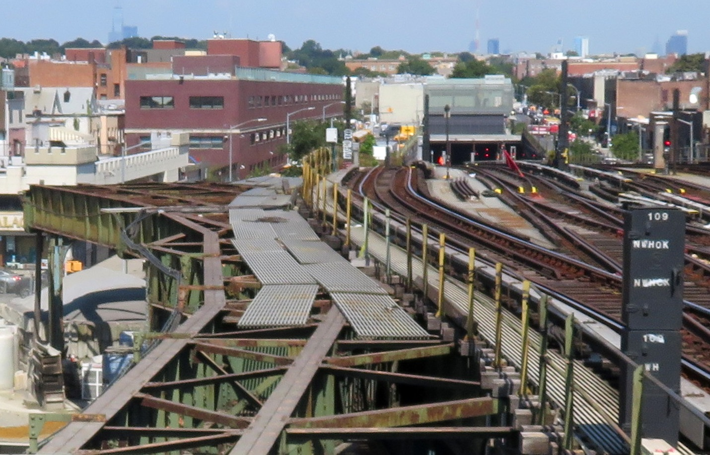 Culver Shuttle trackway, no longer used, along with Culver Ramp and IND tunnel portal, seen from Ditmas Avenue station in September 2018